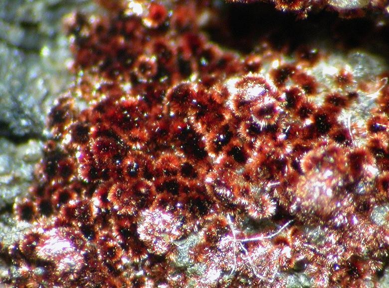 Barnesite Locality: Vanadium Queen Mine, La Sal Creek Canyon, Paradox Valley District, Paradox Valley, San Juan Co., Utah, USA Field of view 3 mm. Specimen and photo Leon Hupperichs.